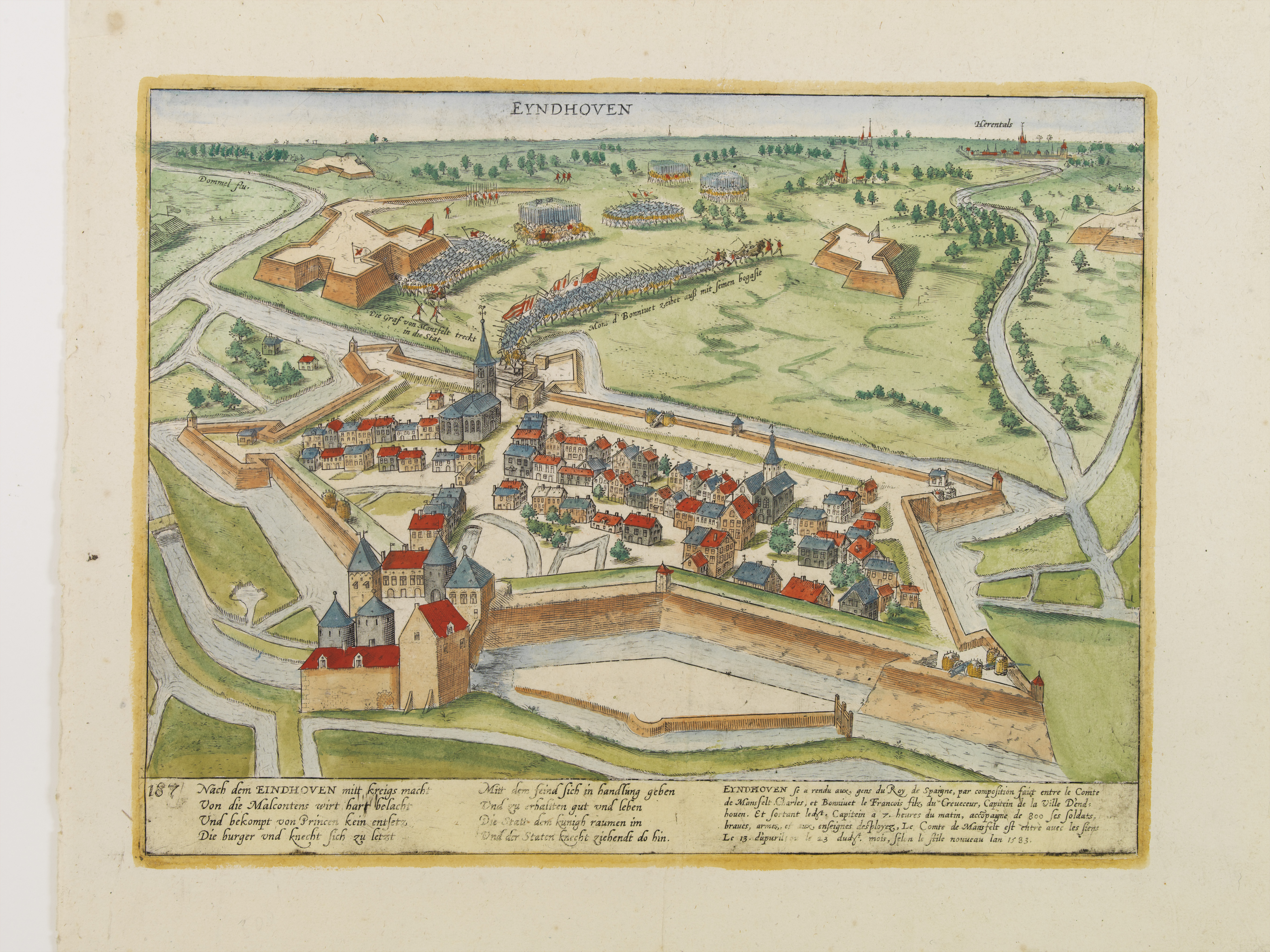 aerial view of the city of Eindhoven during conquest in 1583